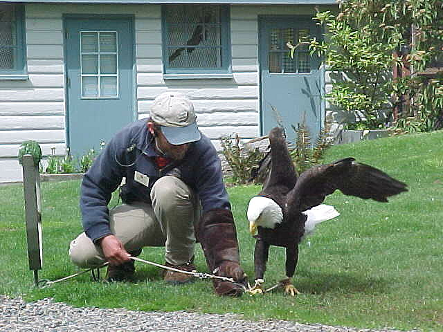 Eagle at the Seattle Zoo4-20S